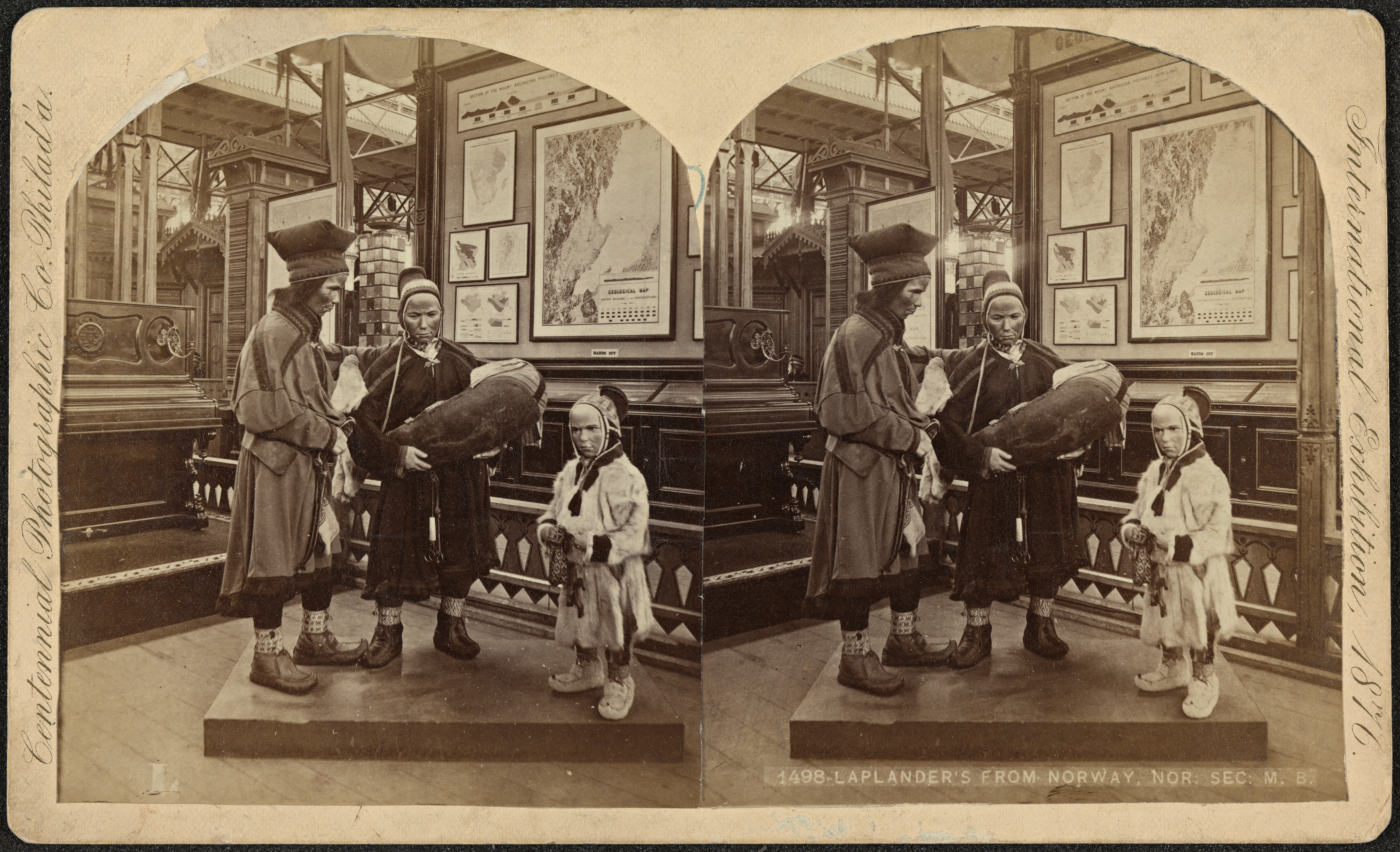 Beskrivelse / Description: Fra verdensutstillingen i Philadelphia. Stereokortet stammer fra en gave gitt Nasjonalbiblioteket av Arvid Hoff. Dato / Date: 1876 Sted / Place: USA, Pennsylvania, Philadelphia Fotograf / Photographer: ukjent / unknown Utgiver / Publisher: Centennial Photographic Co. (Philadelphia) Digital kopi av original / Digital copy of original: sv/hv papirpositiv, stereofotografi Eier / Owner Institution: Nasjonalbiblioteket / National Library of Norway Lenke / Link: Bildesignatur / Image Number: blds_09355